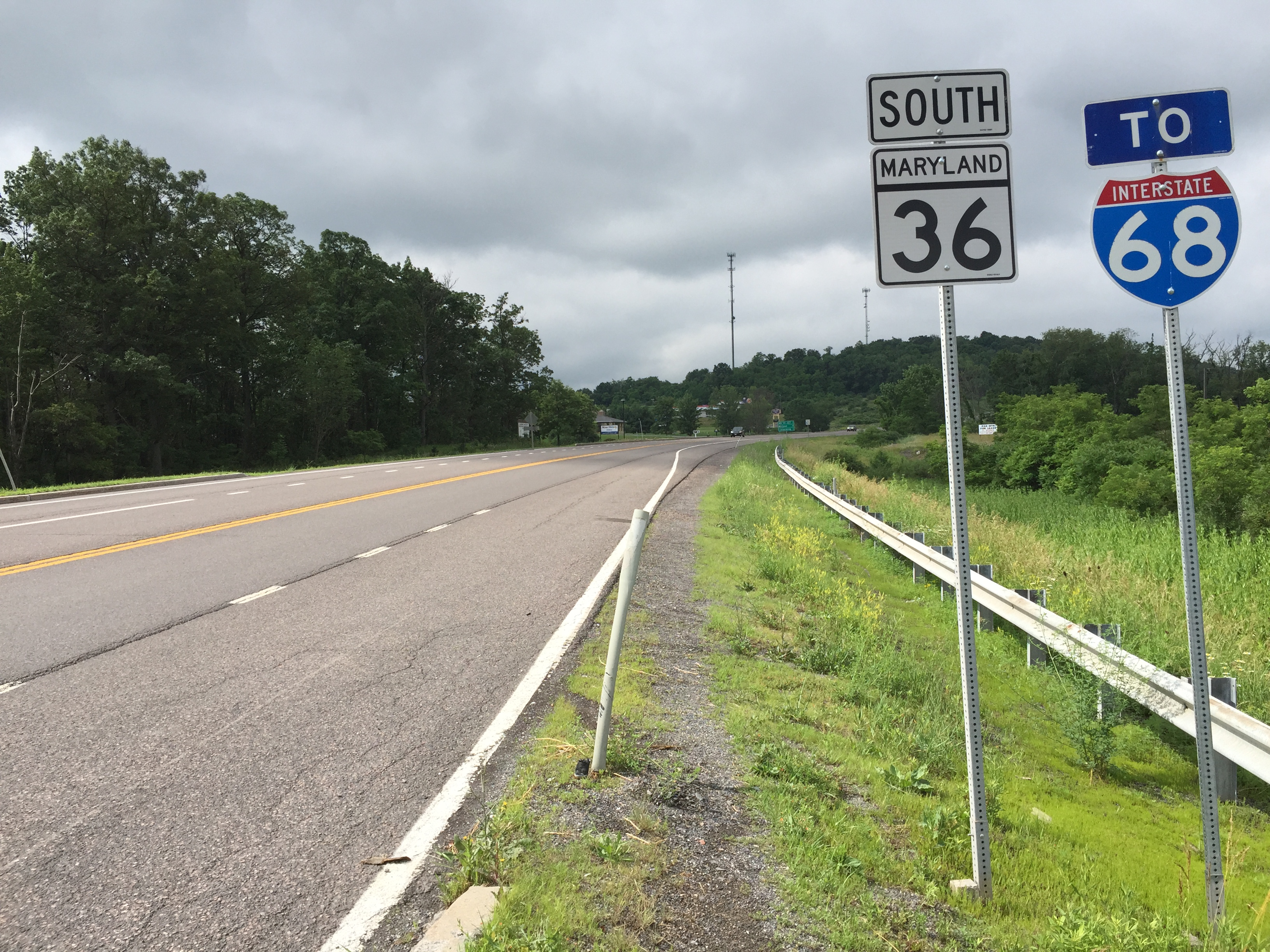 View south along Maryland State Route 36 (New Georges Creek Road) just south of Bishop Murphy Drive in Frostburg, Allegany County, Maryland